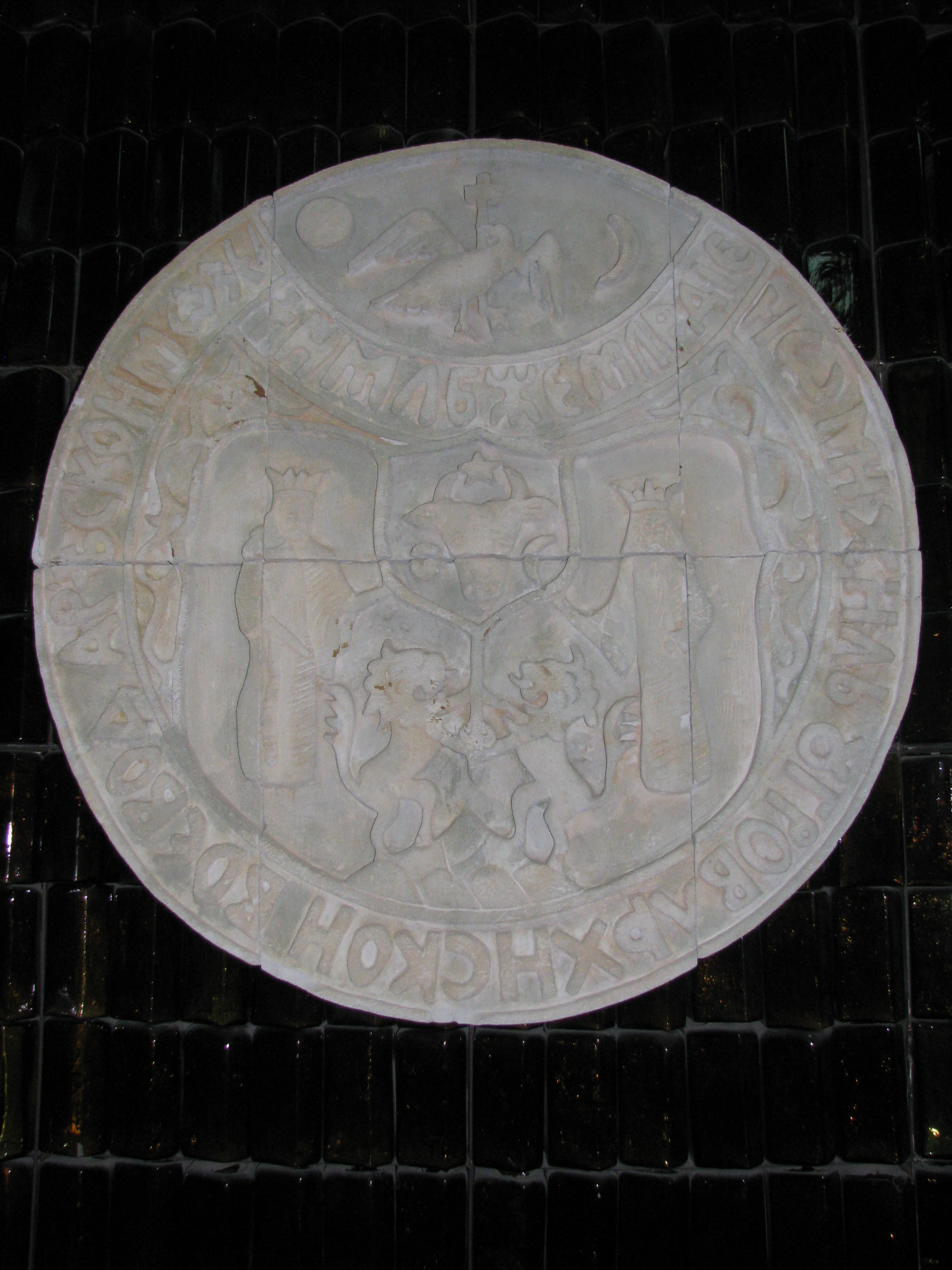 Alba Iulia National Museum of the Union 2011